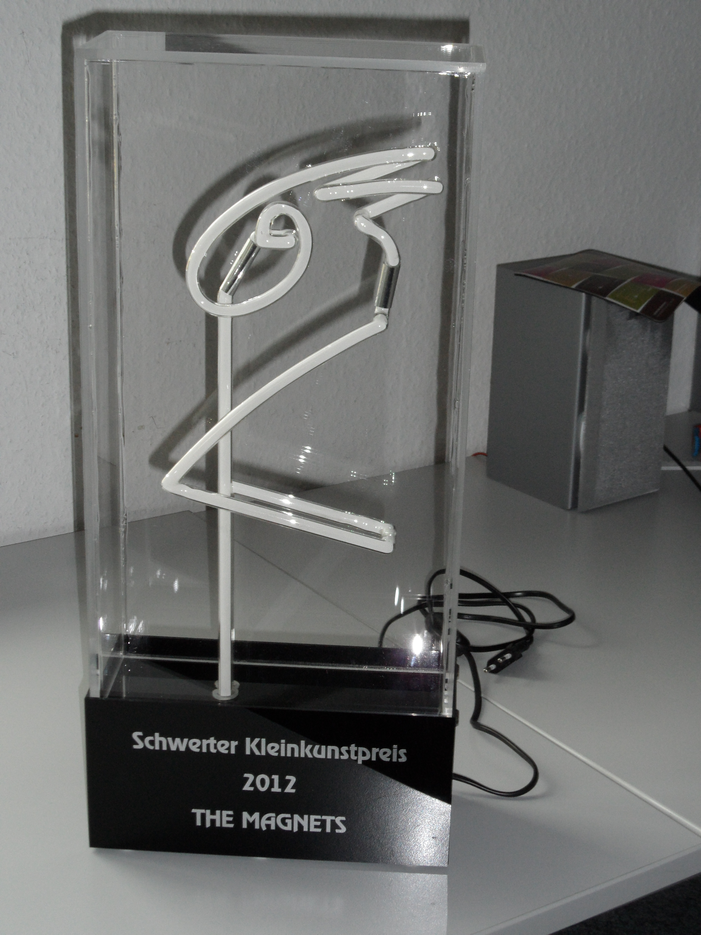 The "Schwerter Kleinkunstpreis" of 2012, awarded to the british a-capella-band "The Magnets".